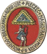 Seal of Brasłaŭ (1792)